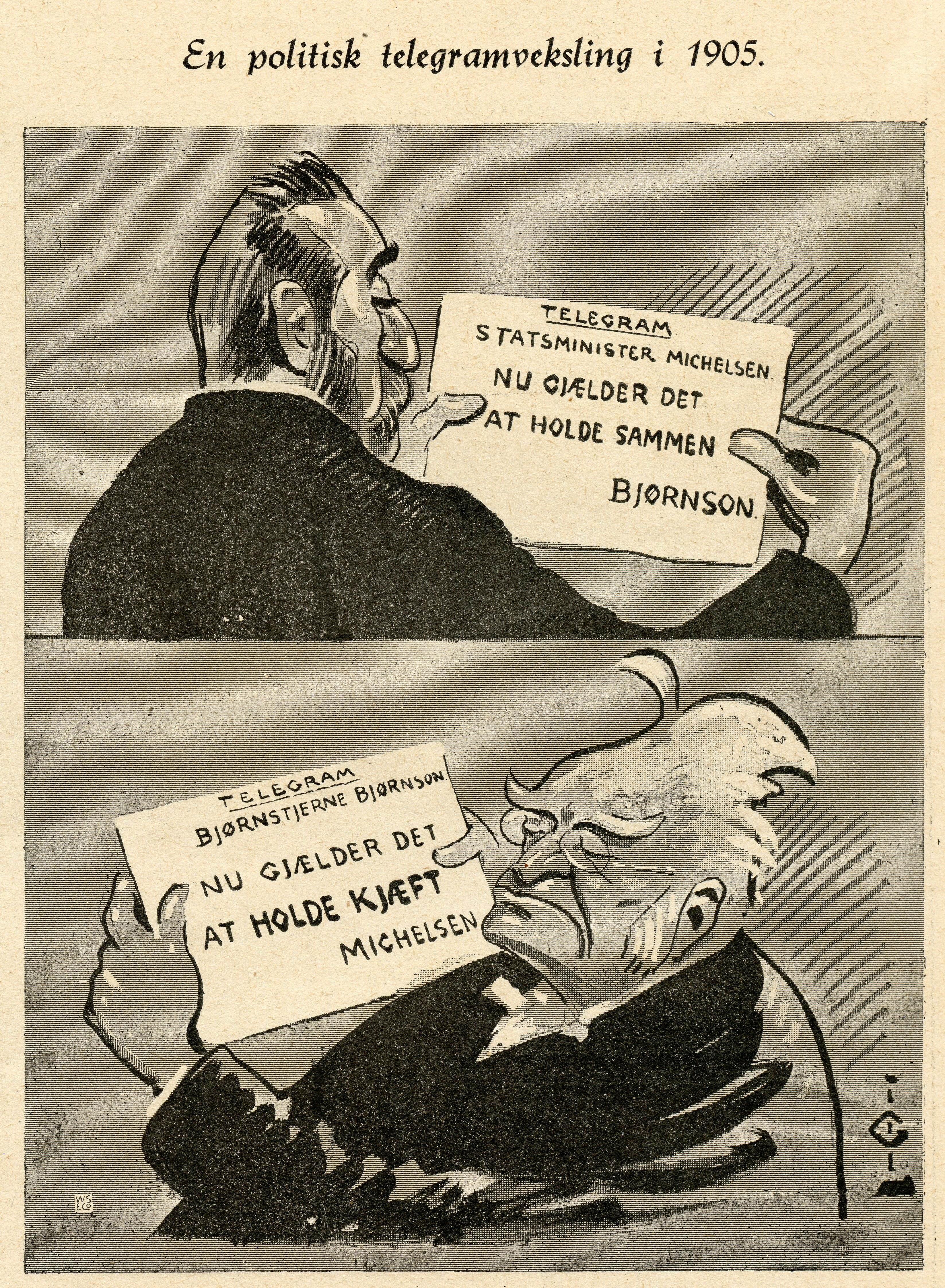 A political telegram exchange in 1905.